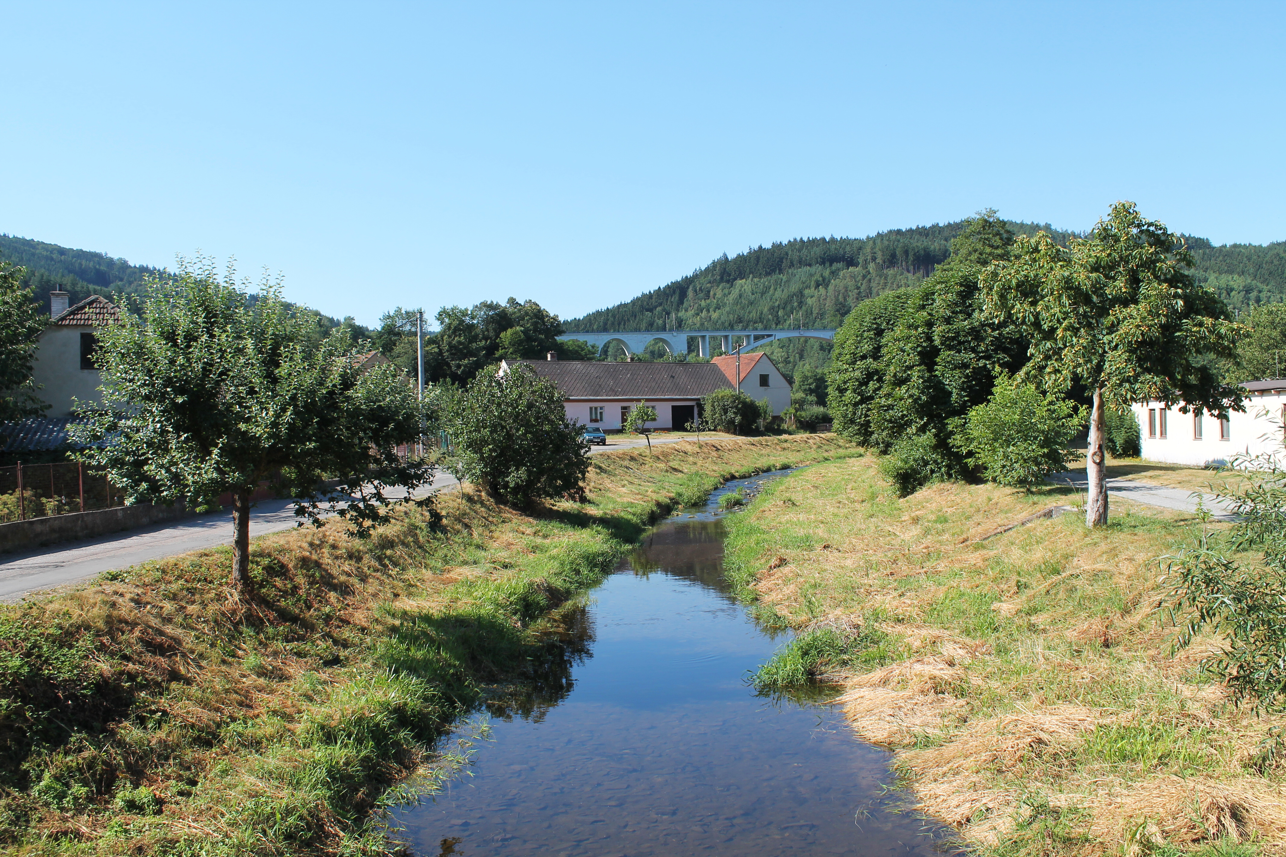 Libochůvka river, Dolní Loučky, Brno-Country District, Czech Republic